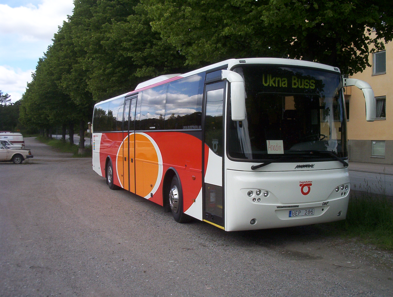 A VDL Jonckheere Mistral 30 in Neglinge outside Stockholm. chassis VDL Bus & Coach SB4000.